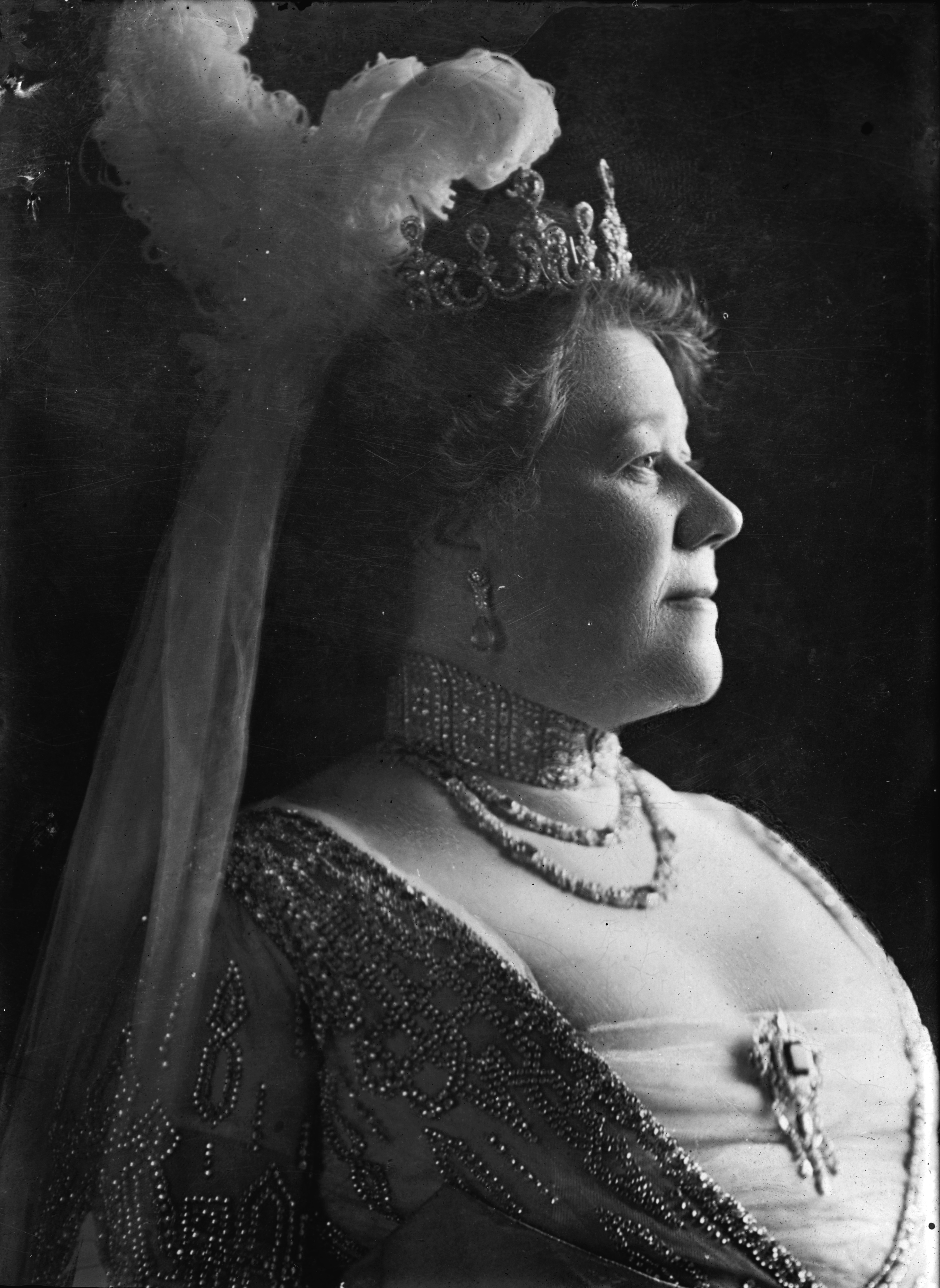 Natalie Harris Hammond (Mrs. John Hays Hammond)